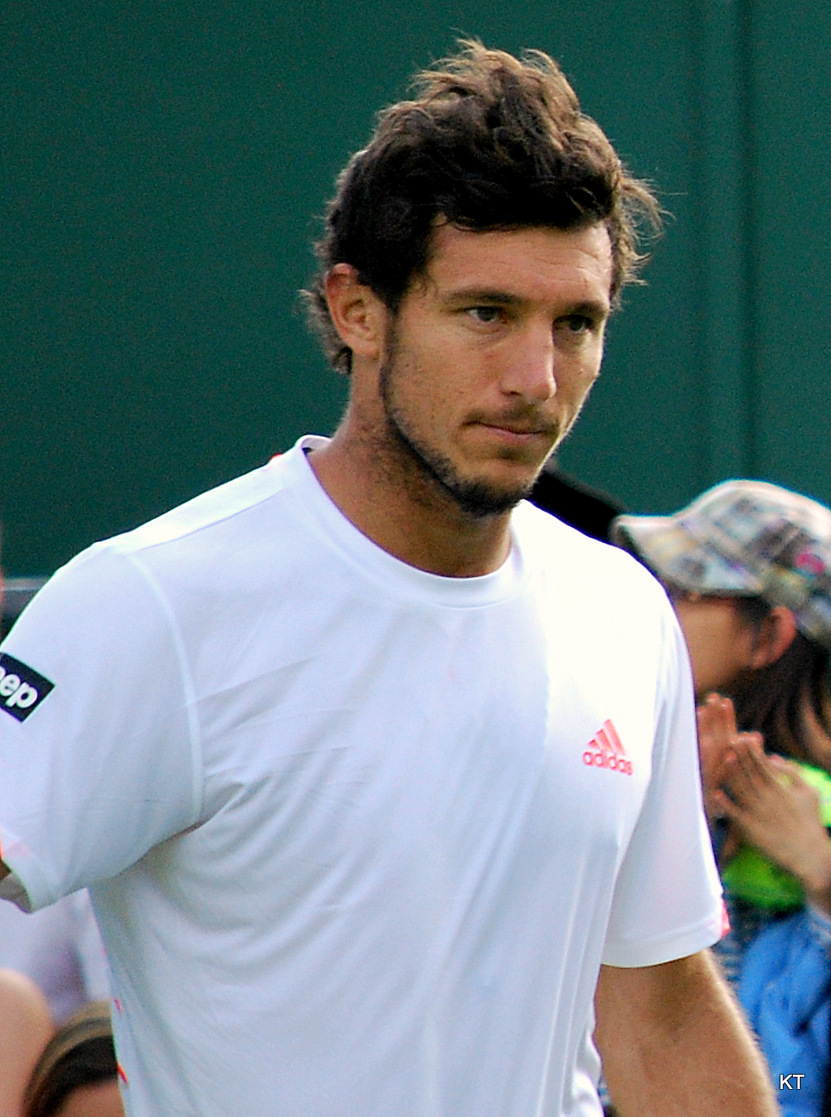 Juan Monaco wins his first round match - which is his first ever win at Wimbledon. 6-4, 7-6, 7-6 over Leonardo Mayer. Day 1 of Wimbledon 2012.